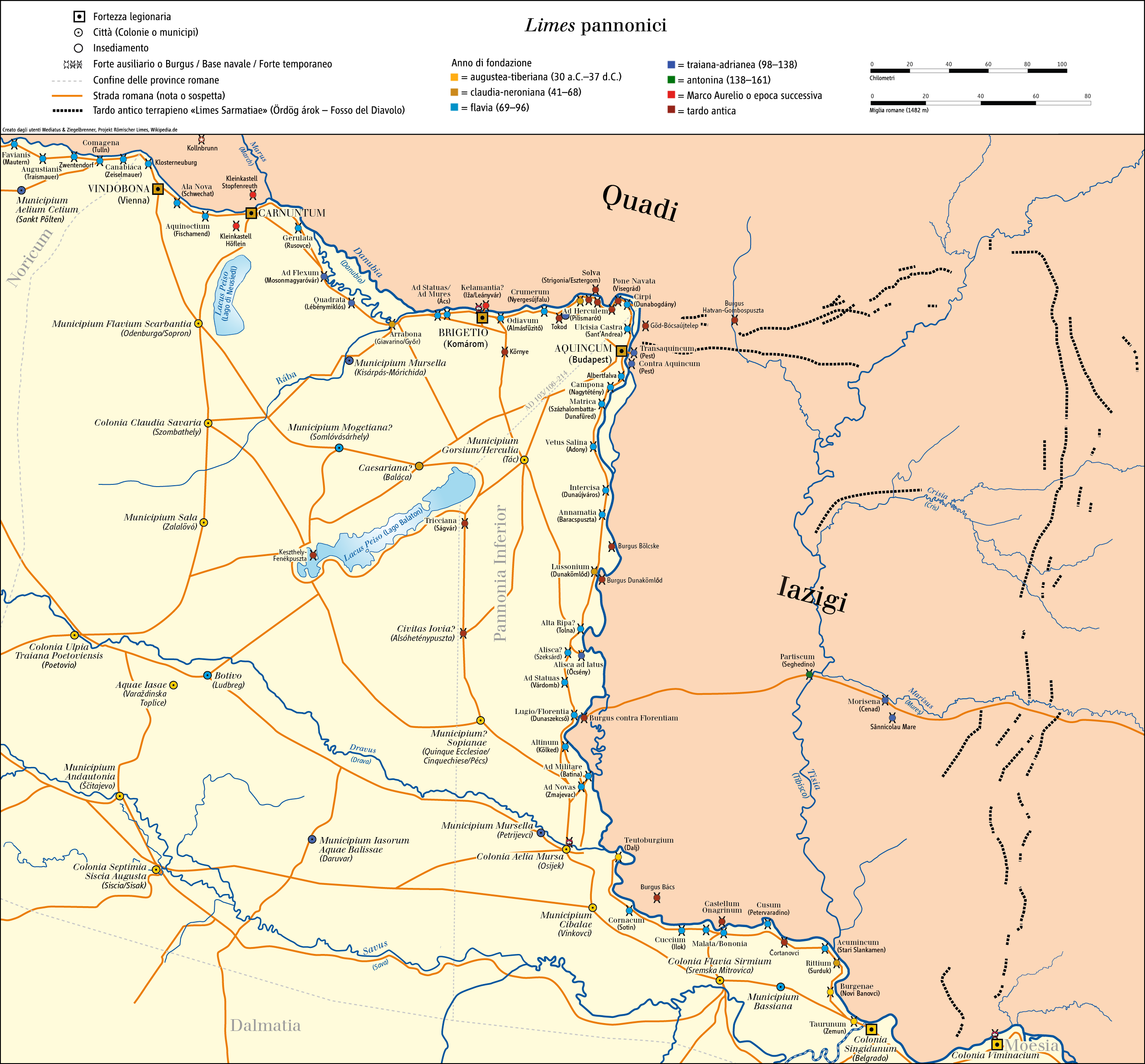 Italian version di File:Limes4.png